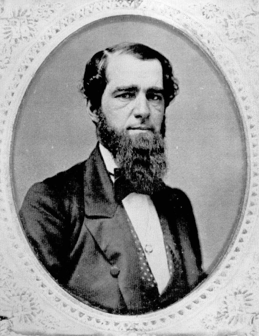 James Lord Pierpont (April 25, 1822 - August 5, 1893) was an American songwriter, arranger, organist, and composer, best known for writing and composing Jingle Bells in 1857, originally entitled "The One Horse Open Sleigh".